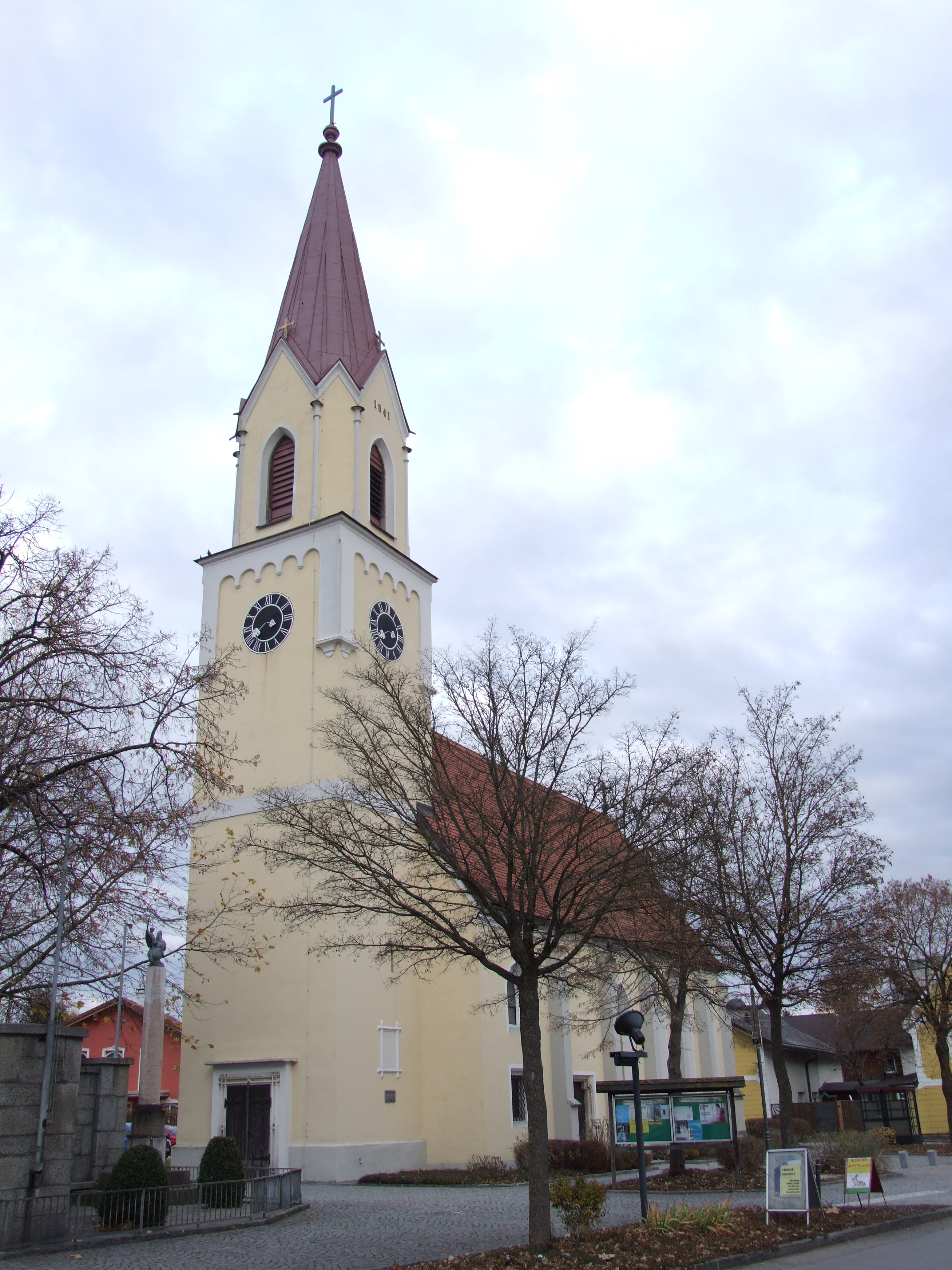 Catholic church Marchtrenk